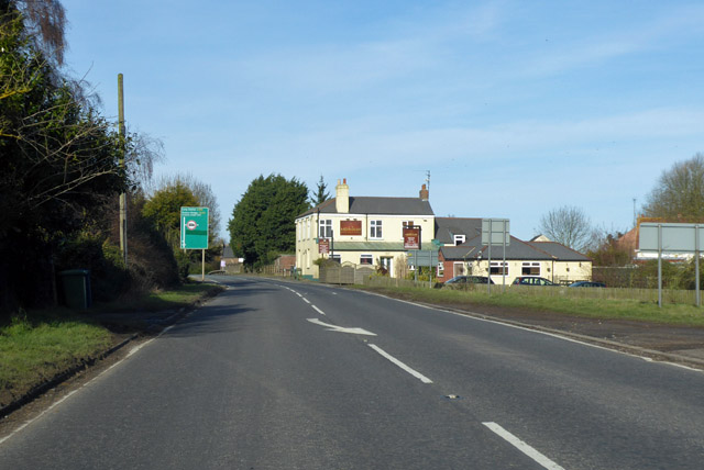 Mehman Rustic Indian Restaurant, Tydd Gote